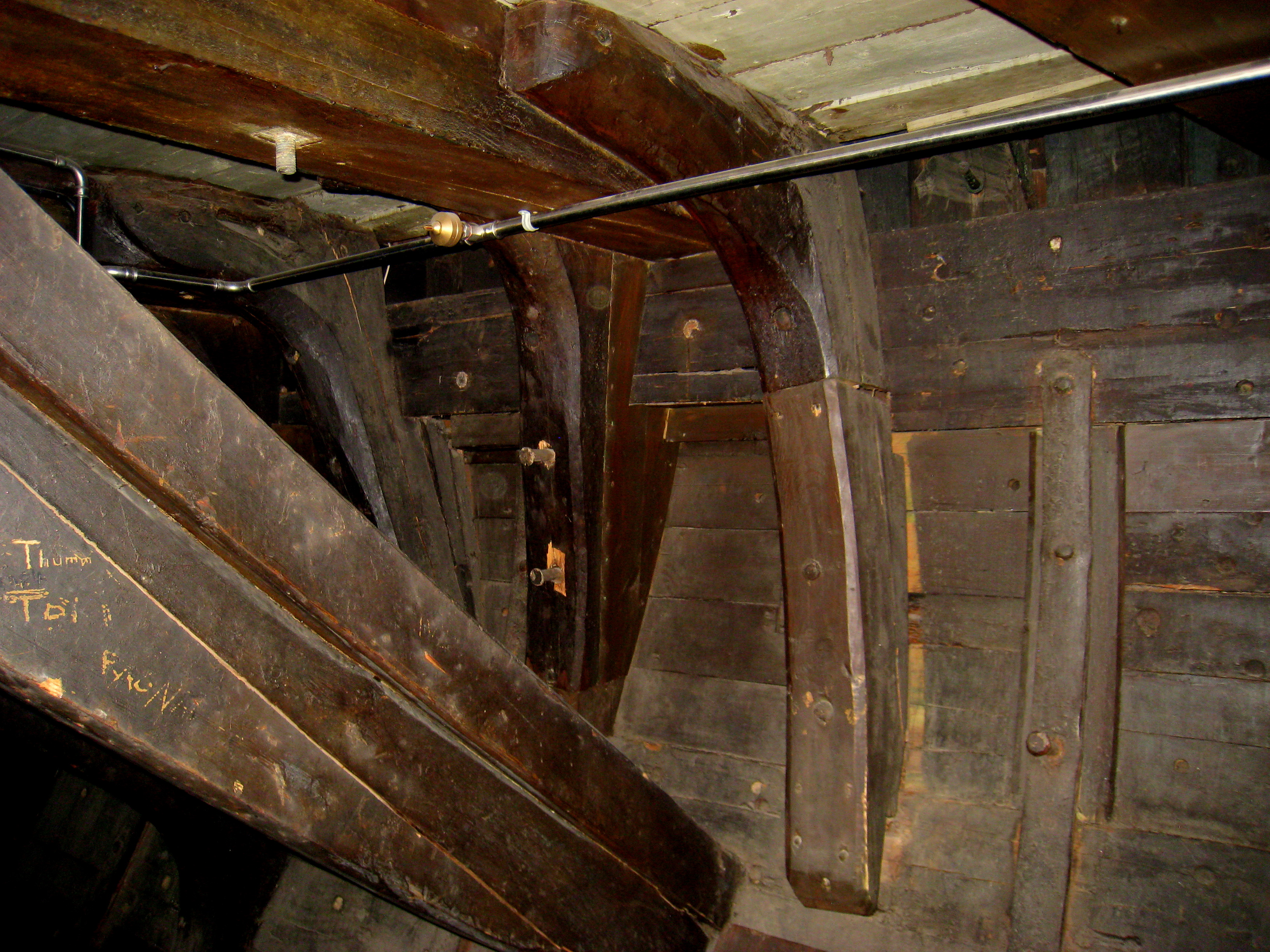 Fram (historic ship) in the Fram Museum, Oslo, Norway.